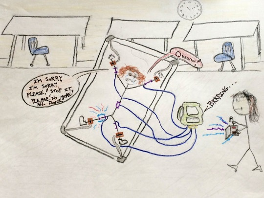 This is a drawing by a former resident of the Judge Rotenberg Educational Center depicting the punishment of GED shocks while restrained to a four-point board. Residents sometimes received multiple GED shocks while restrained to a four-point board as punishments for standard infractions.